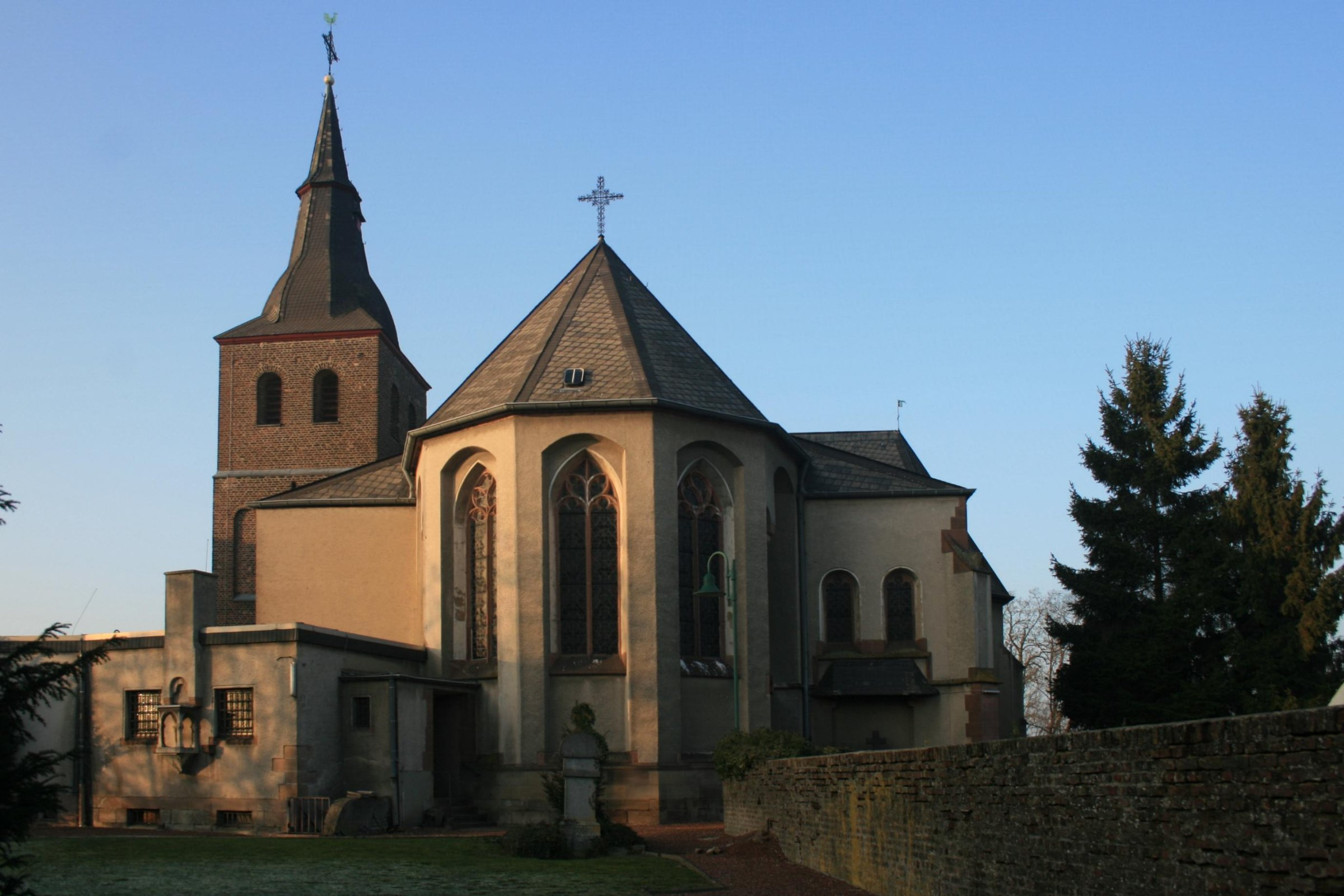 Cultural heritage monument No. 38 in Jülich